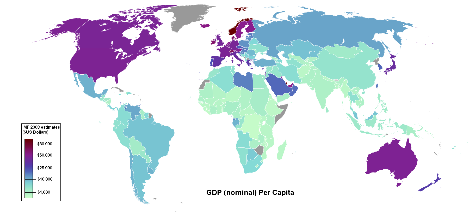 World map showing countries by nominal GDP per capita in 2008, IMF estimates as of April 2009.